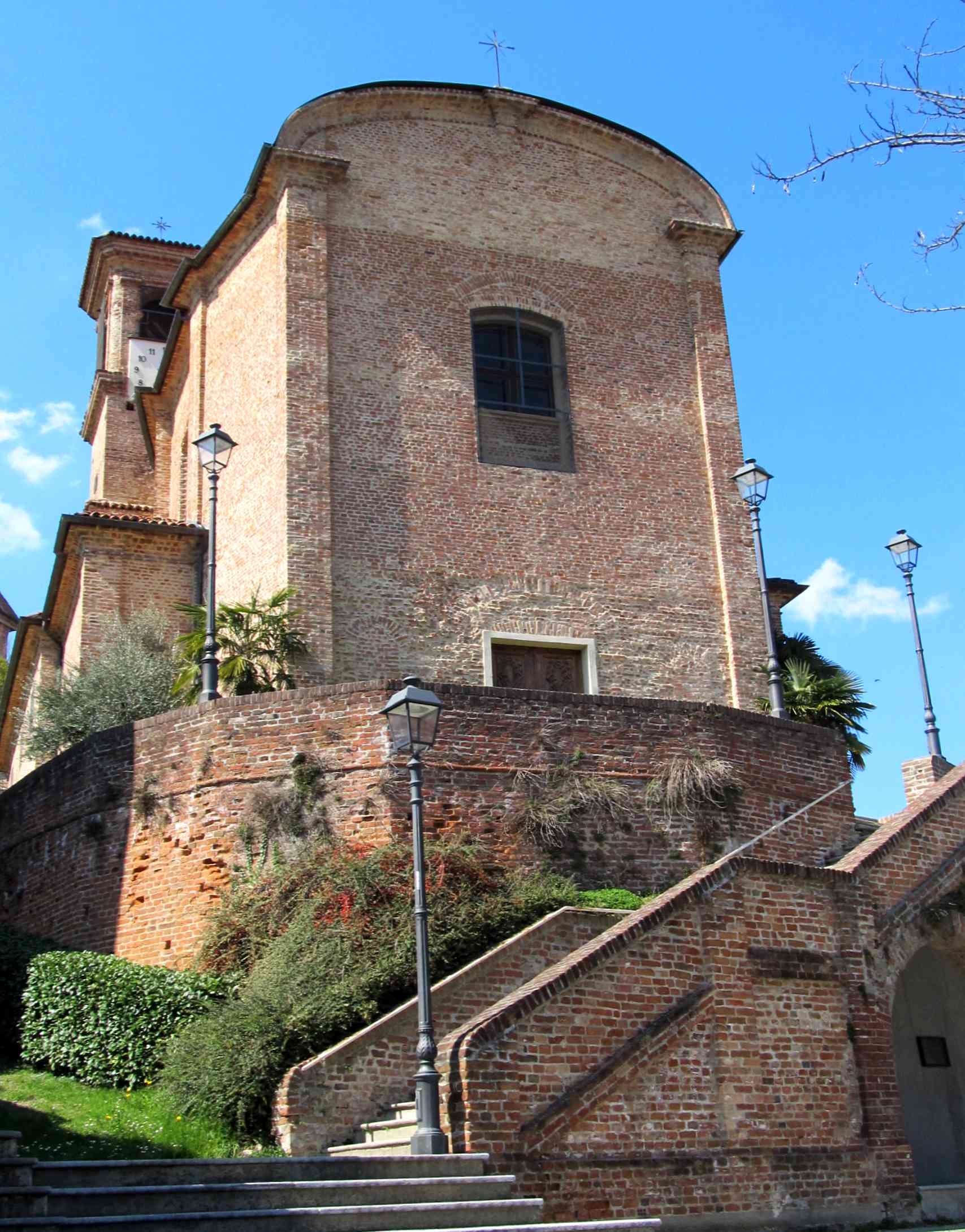 Montaldo Torinese (TO, Italy): sanits' Vittore e Corona parish church